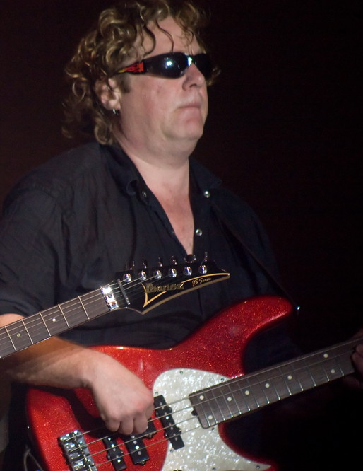 Stuart Hamm in concert, Rijnhal, Arnhem (June 12., 2008)